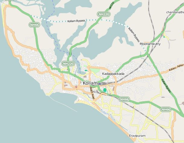 A locator map of Kollam city. Equirectangular projection. Geographic limits of the map: top = 8.933617 bottom = 8.854415 left = 76.541141 right = 76.635898 This map may be incomplete, and may contain errors. Don't rely solely on it for navigation.